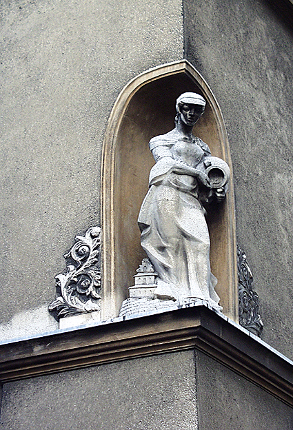 Sculpture of a woman pouring hot liquid on the protestant soldiers who try to capture the town - a heroin from a legend about the siege of Gliwice during the Thirty Years' War.